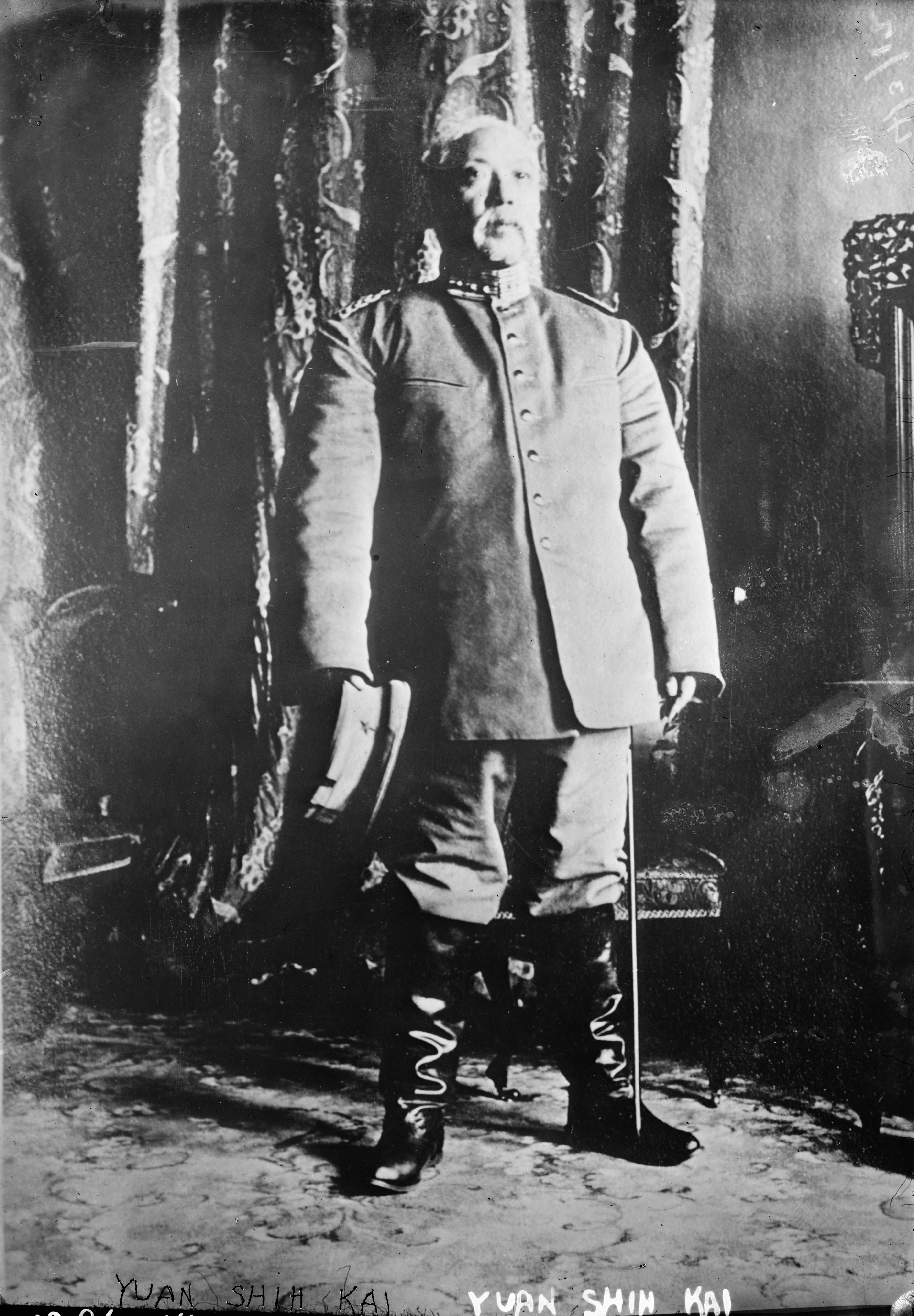 General Yuan Shikai, President of the Republic.